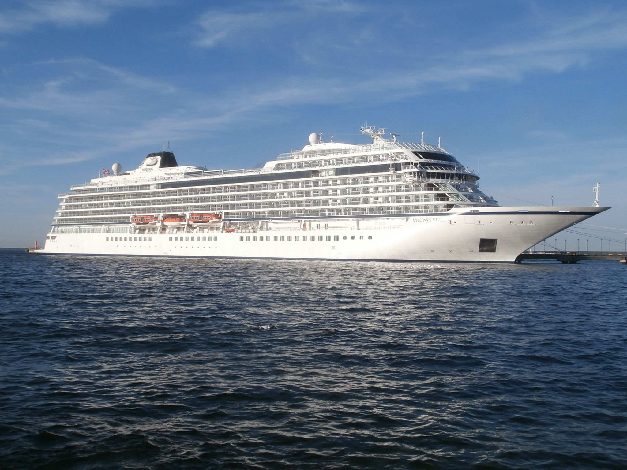 Viking Star at pier 24 in Tallinn 20 May 2016